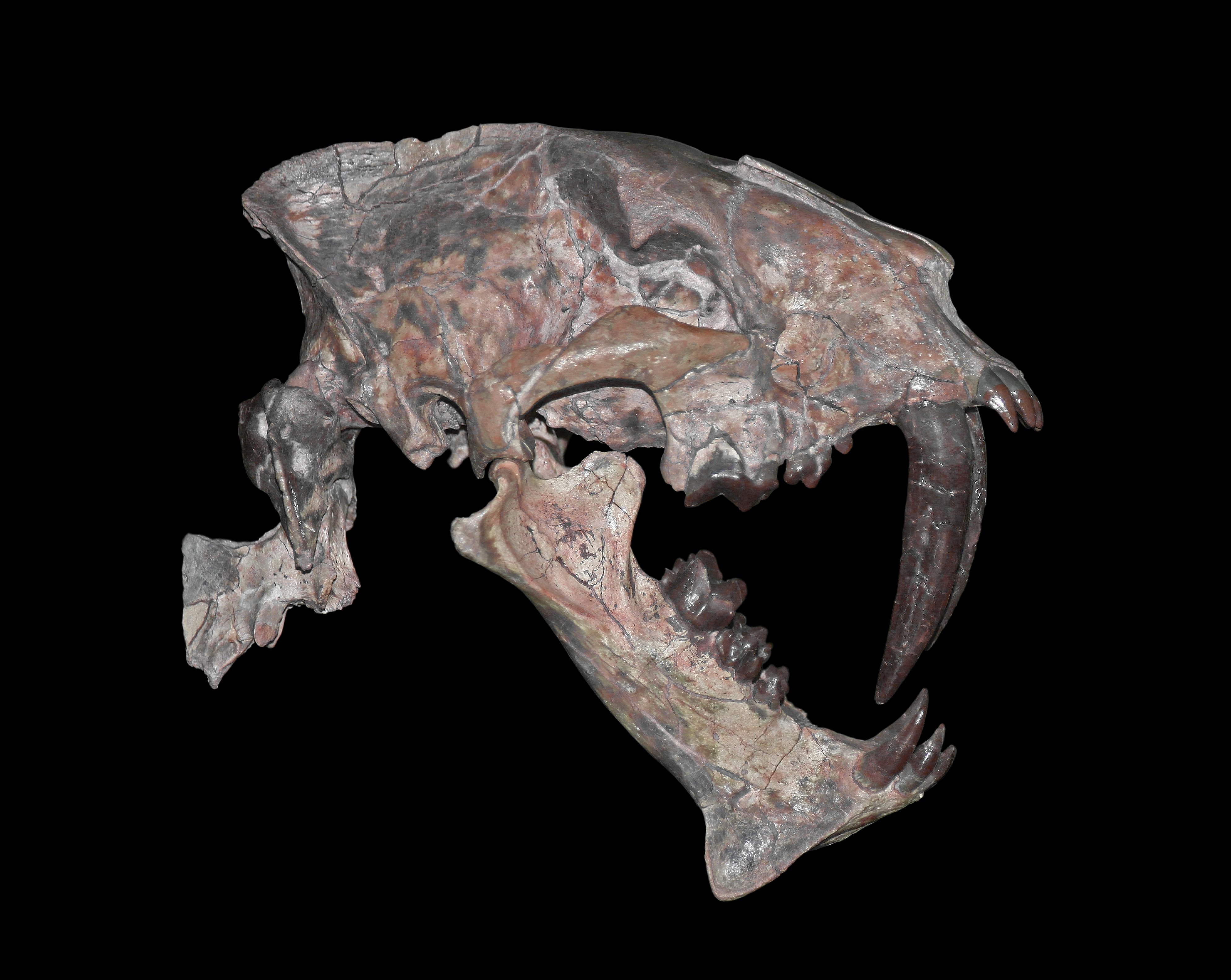 Hoplophoneus primaevus, Nimravidae, Sabertooth; Oligocene, South Dakota, USA; Staatliches Museum für Naturkunde Karlsruhe, Germany.